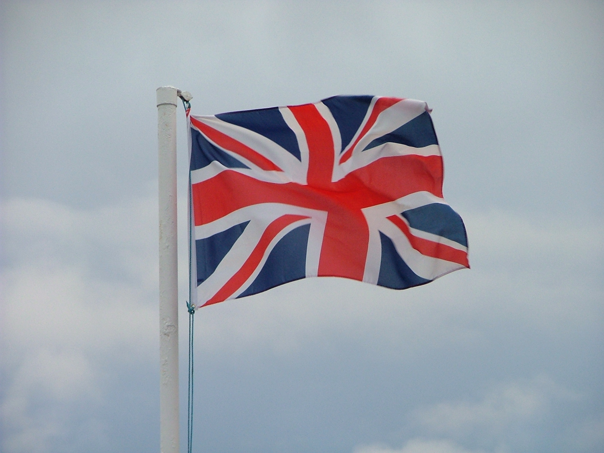 This is the Union Flag, Flag of the United Kingdom.